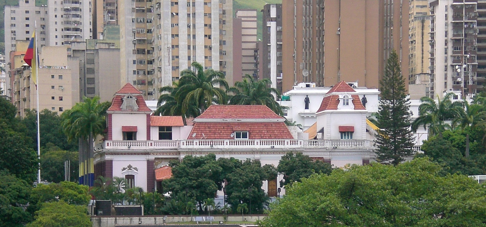 Miraflores Palace, september, 2010.